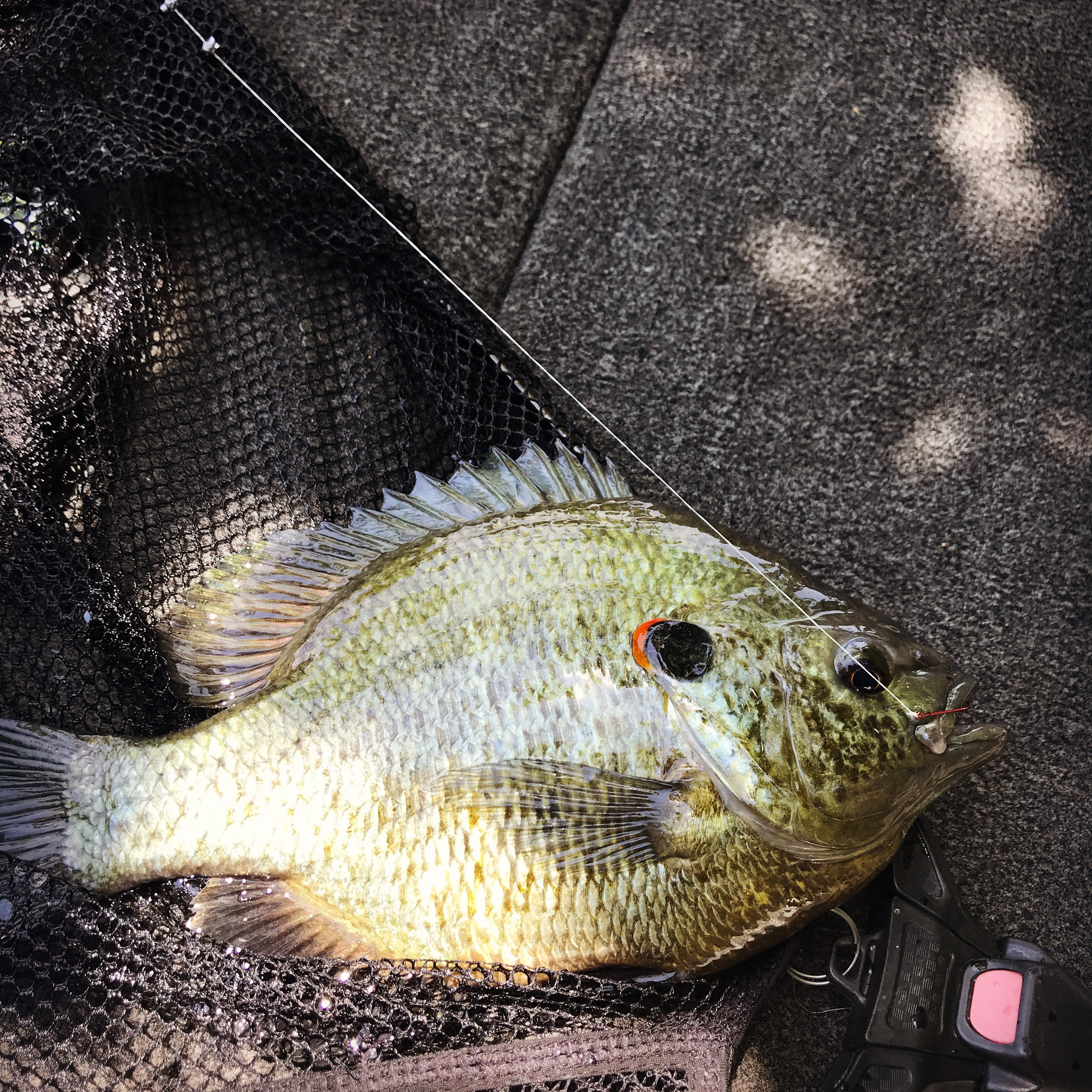 Redear sunfish are elusive and challenging to catch